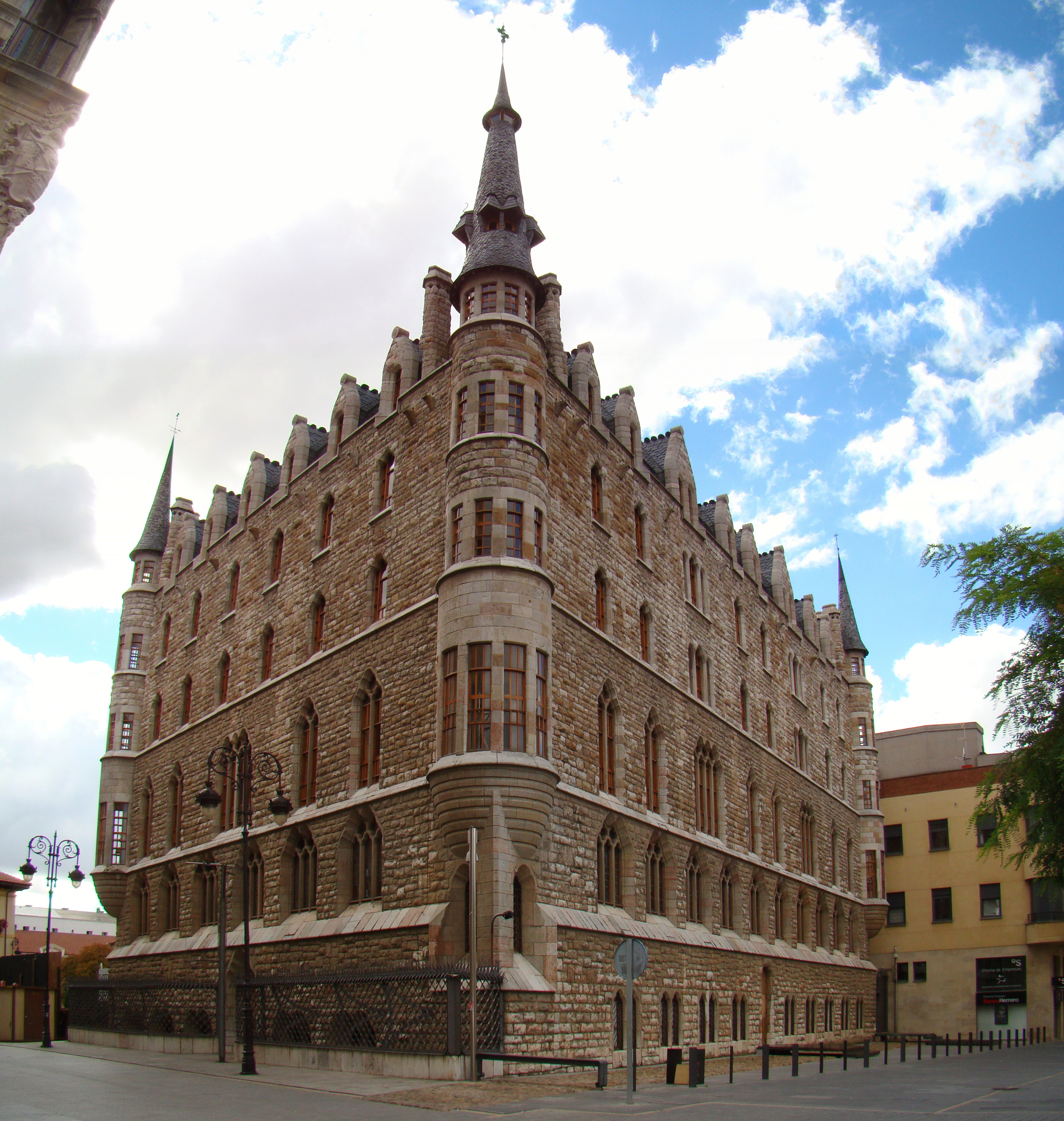 The Casa de los Botines in León, a Gaudí building, seen from the back.